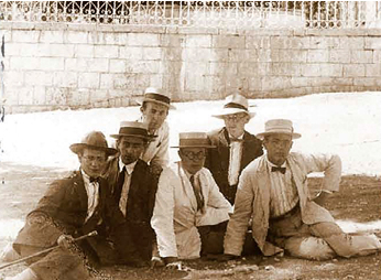 Hebron yeshivah students. All but one were killed in the 1929 massacre.